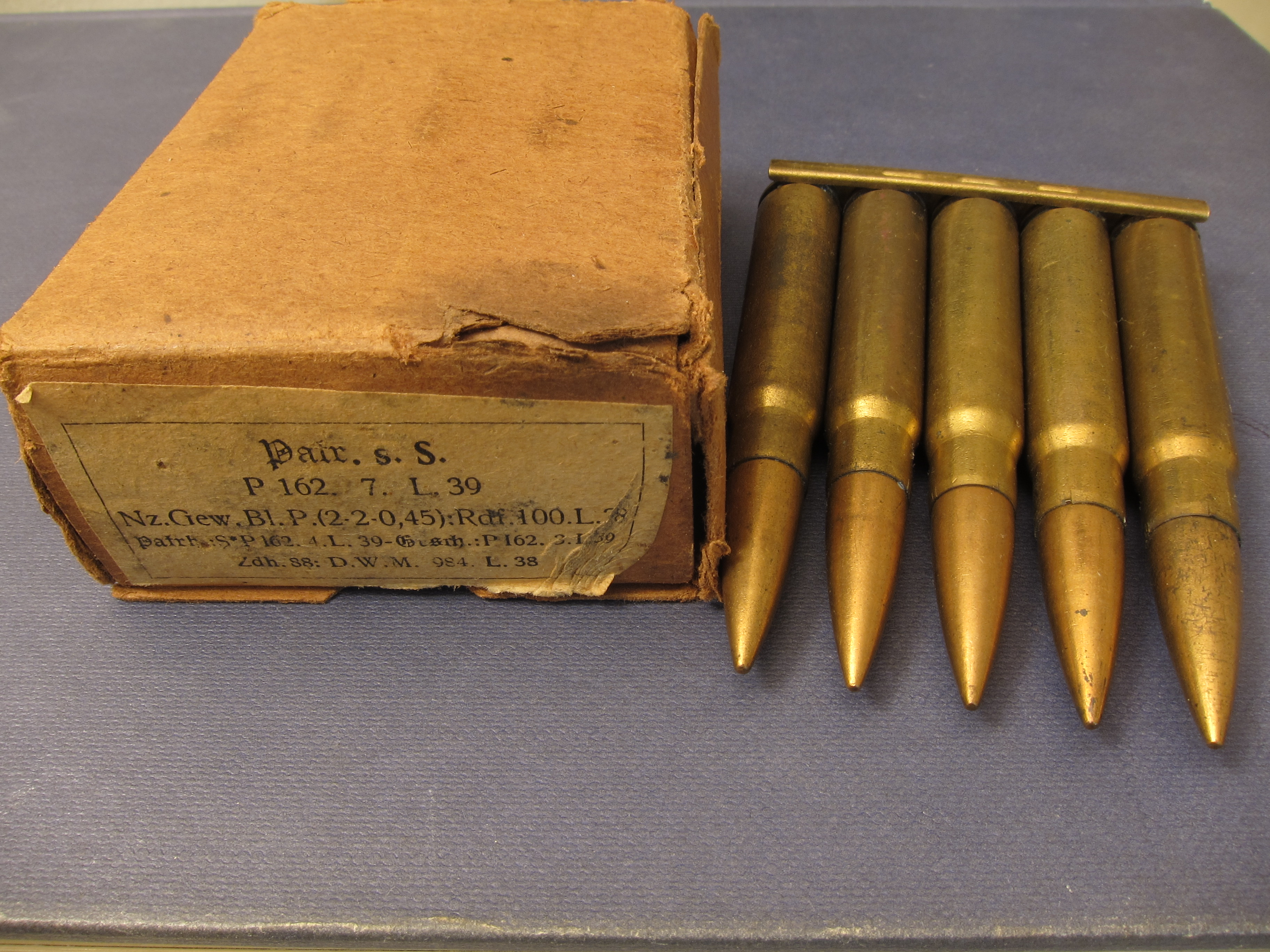 Ammunition box and stripper clip with five brass cased s.S. (ball-type) cartridges produced for the German military made in July 1939 in what was then East Prussia. The German military often omitted any diameter reference and only printed the exact type of loading on ammunition boxes during World War II.